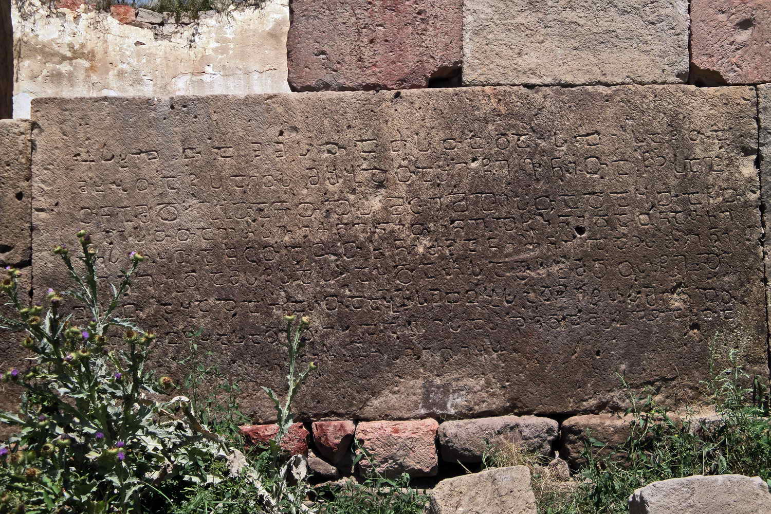 Georgian inscription inside the Saint John (Hovhannes) church of Metsavan, Armenia.